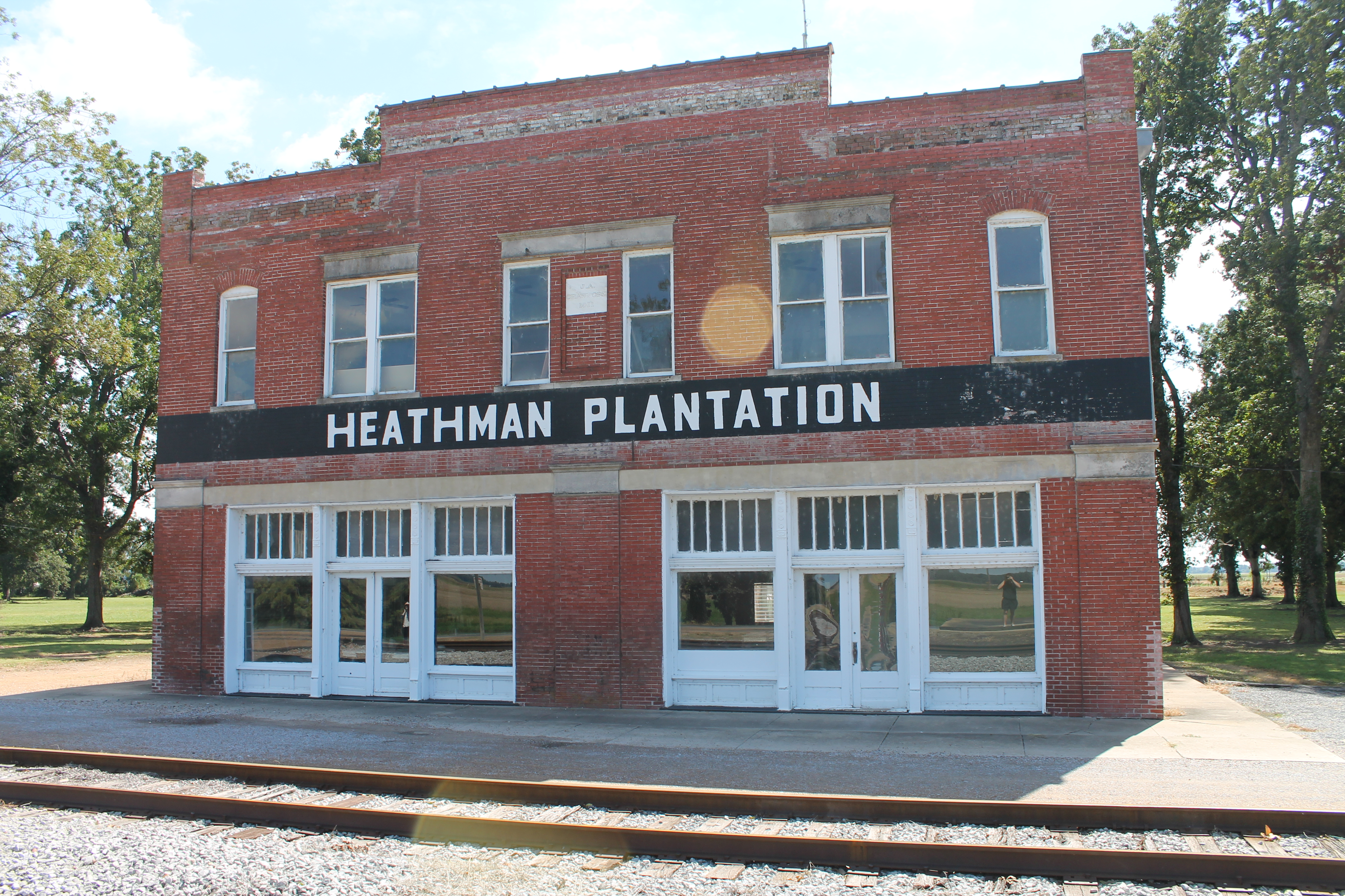 Heathman Plantation Commissary — at Heathman Road and Hwy 82, in the Indianola vicinity, Sunflower County, Mississippi.